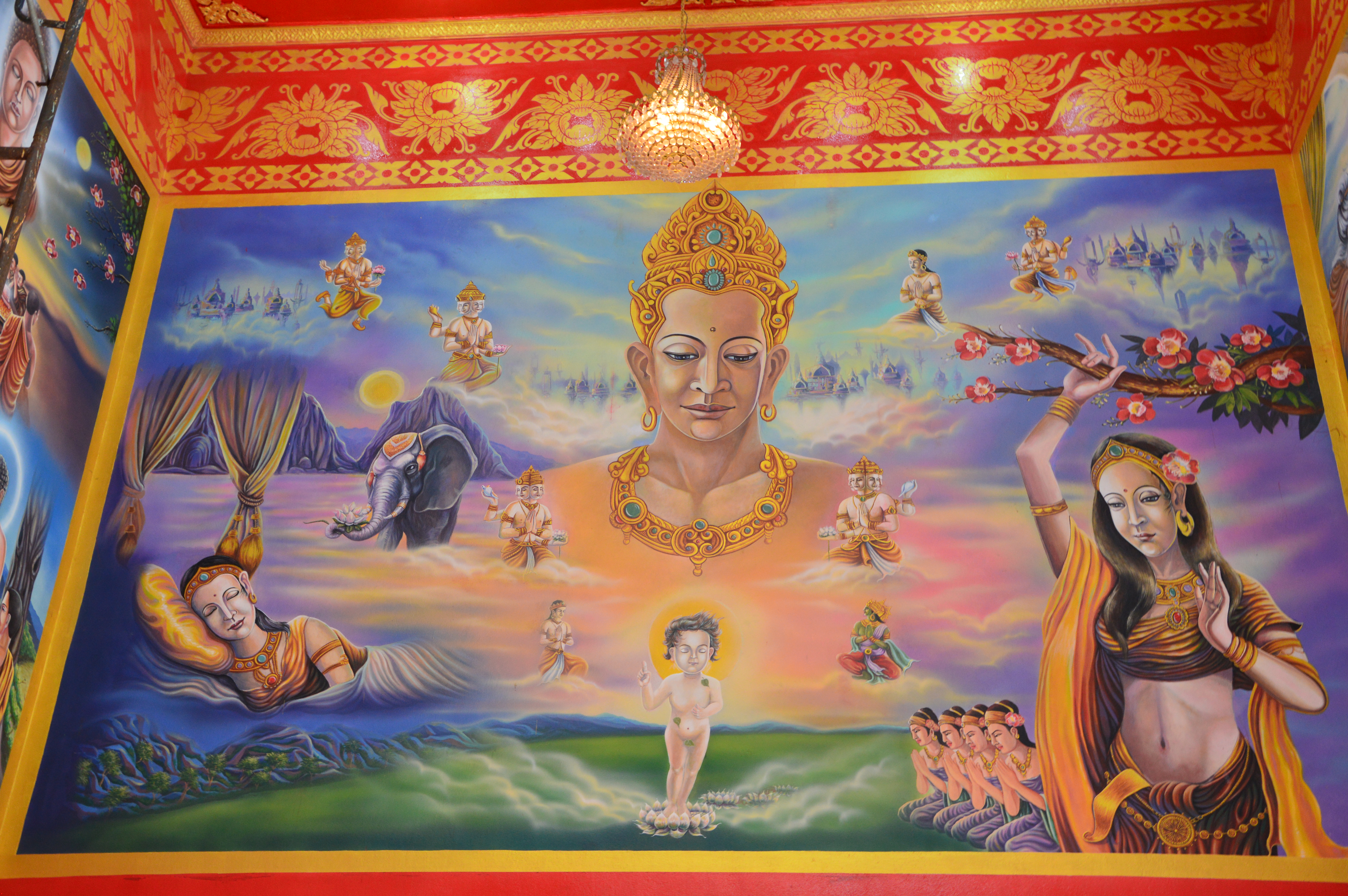 Mural painting at Wat Sangkharacha (วัดสังฆราชา, "Temple of the Patriarch"), Lat Krabang District, Bangkok. It depicts the birth of the Buddha: Queen Maya dreams of a white elephant and delivers the Buddha under a Cannonball Tree.